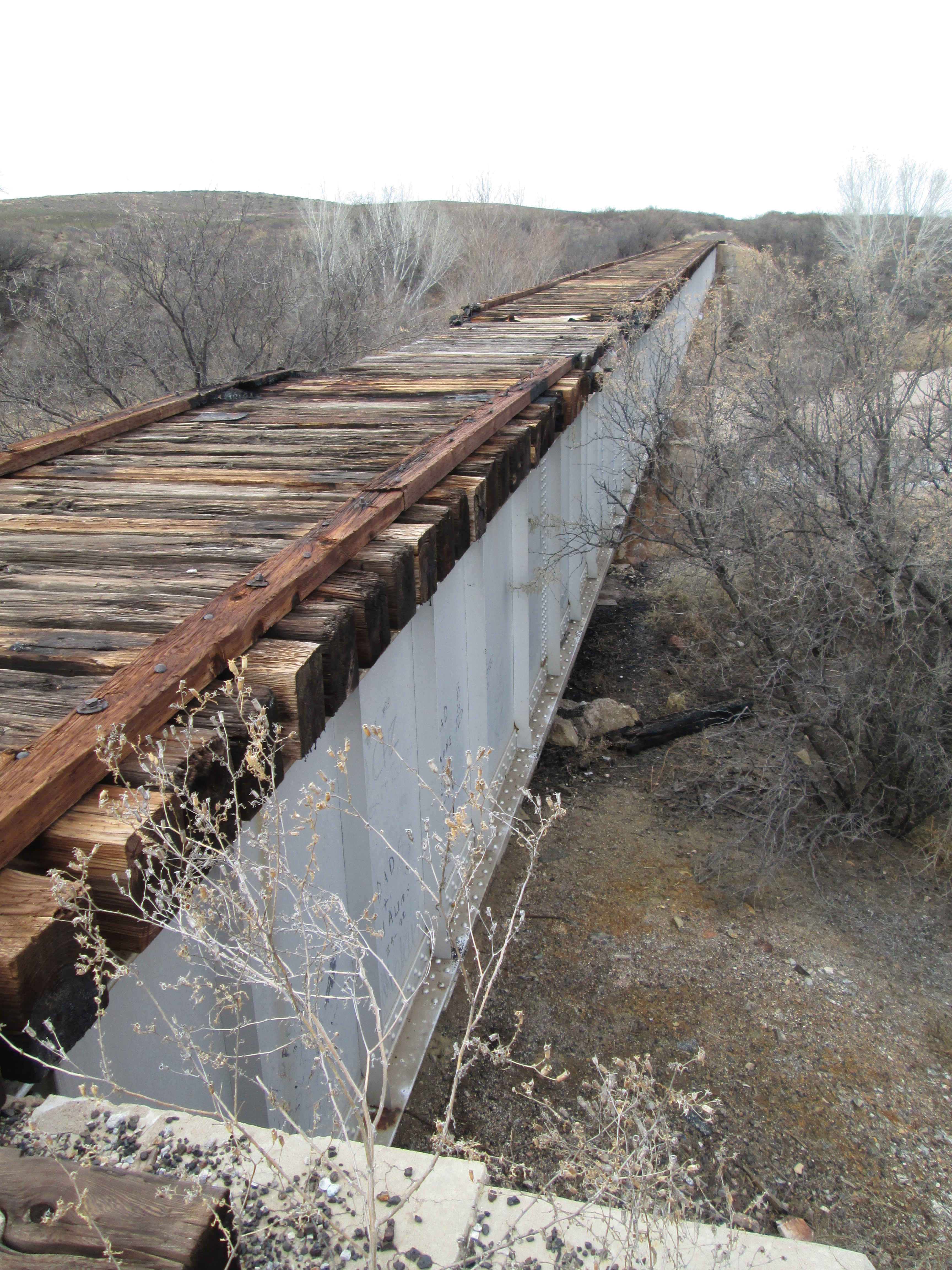 An abandoned railroad bridge built over the San Pedro River in 1927 in the ghost town of Fairbank, Arizona.